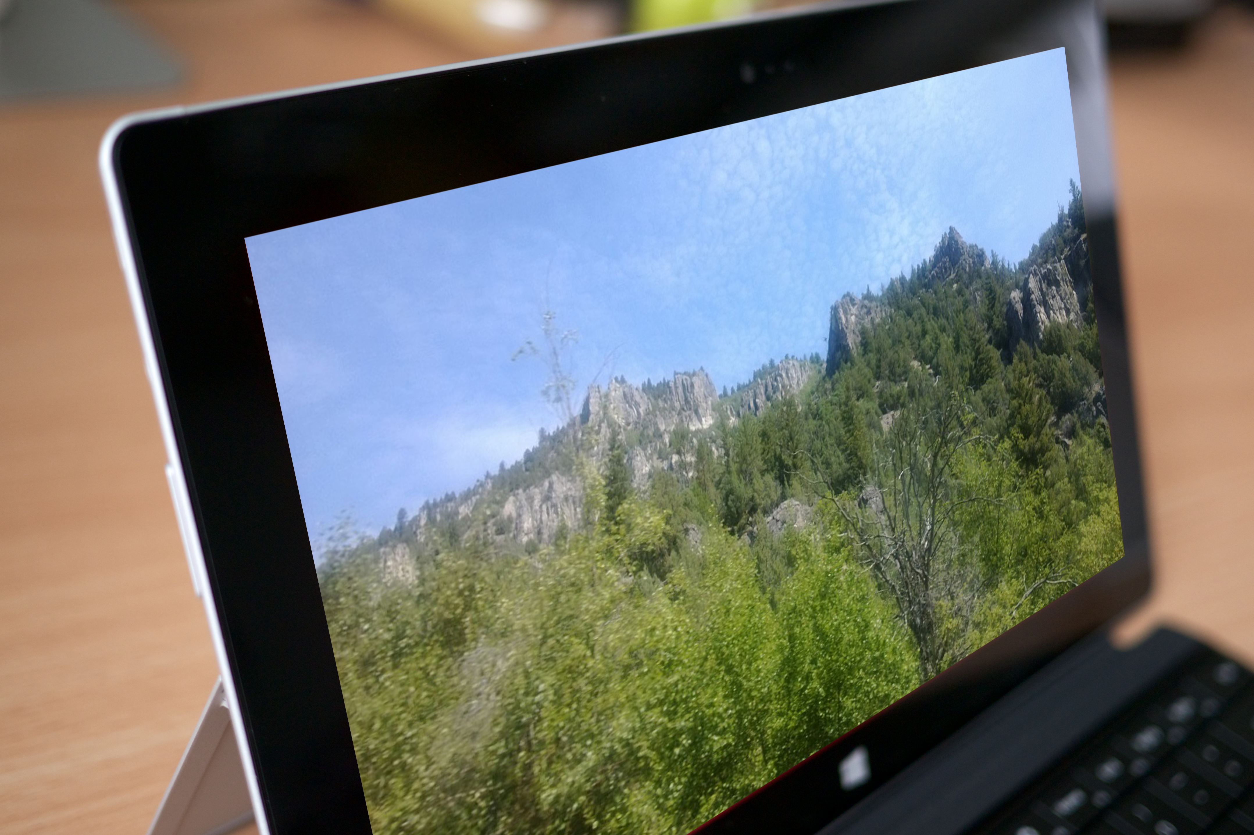 The pictures displays the Surface 2.